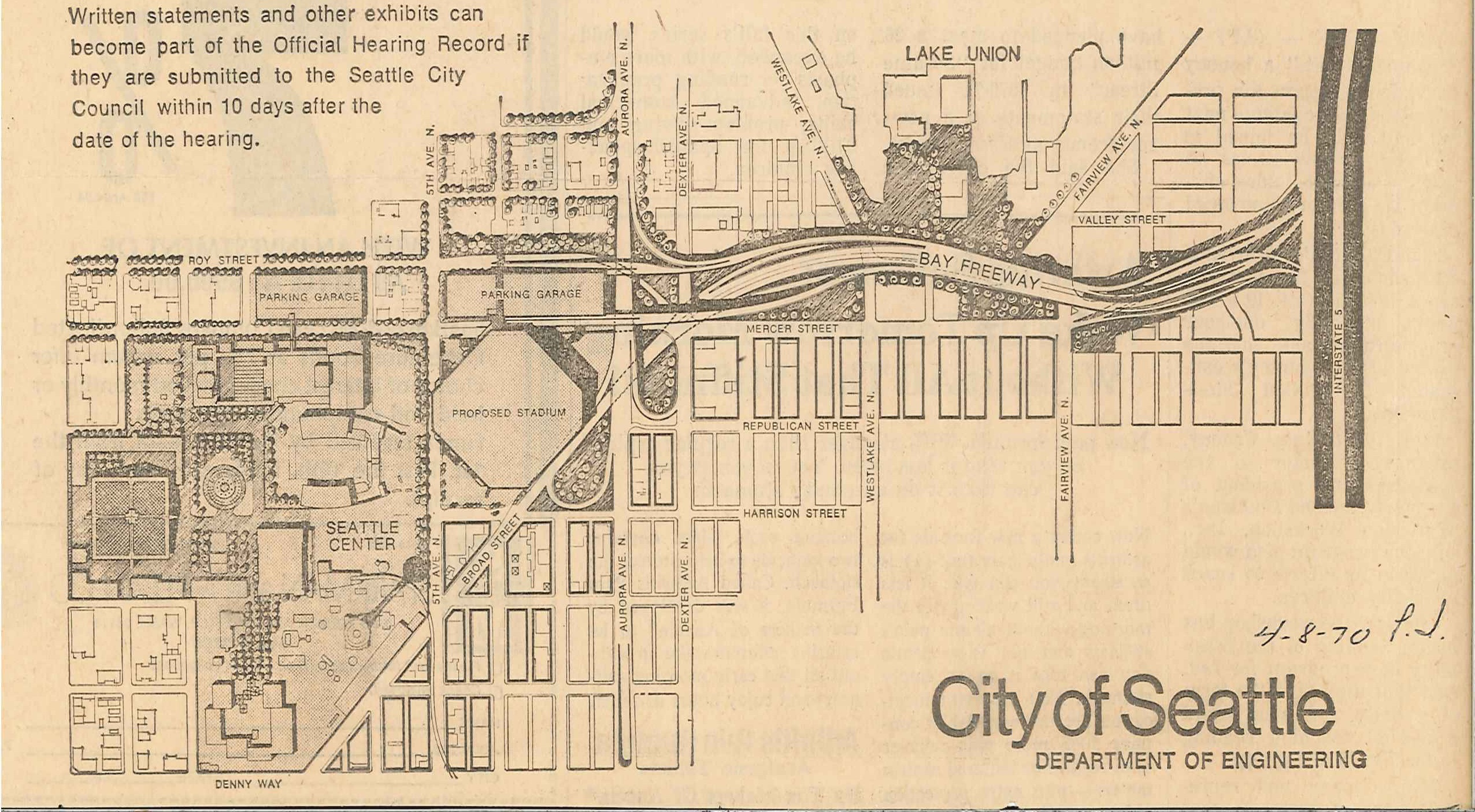 A cropped map of the proposed Bay Freeway in Seattle, Washington.